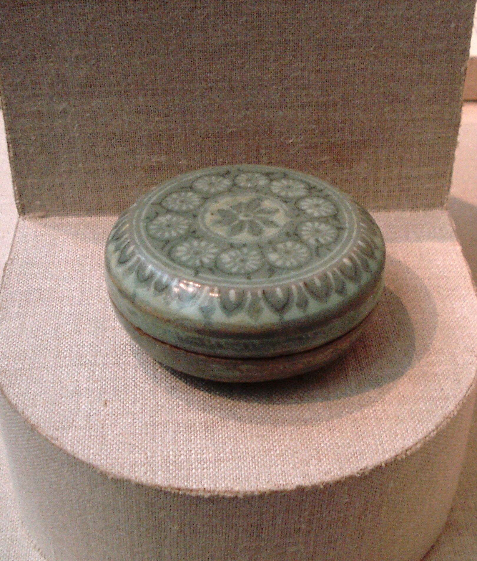 A Korean stoneware cosmetic box with white and black inlay and a celadon glaze, from the Goryeo Dynasty, dated c. 1150–1250. Items such as these have been excavated from Korean Goryeo tombs alongside ceramic hair-oil bottles, needle cases, bronze mirrors, and hairpins.